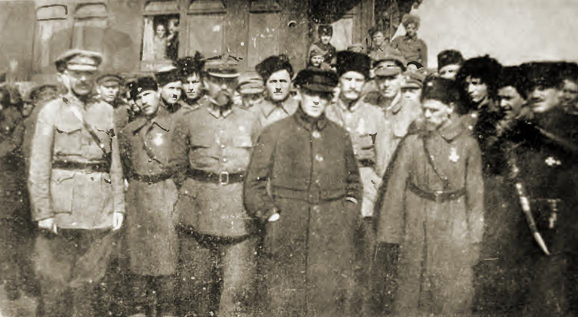 Symon Petlura in camp for soldiers of the UNR Army interned in Poland (1919–24) in Wadowice From left to right: gen. Bazilskyj, gen. Dolud, Symon Petlura, gen. Mychajlo Omelianovycz-Pavlenko, gen. Iwan Omelianovycz-Pavlenko